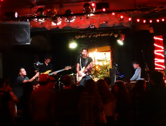 Josiah Johnson of The Head and the Heart on stage at The Bottom of the Hill music venue in San Francisco, CA, August, 2018. Photo by LHCollins.